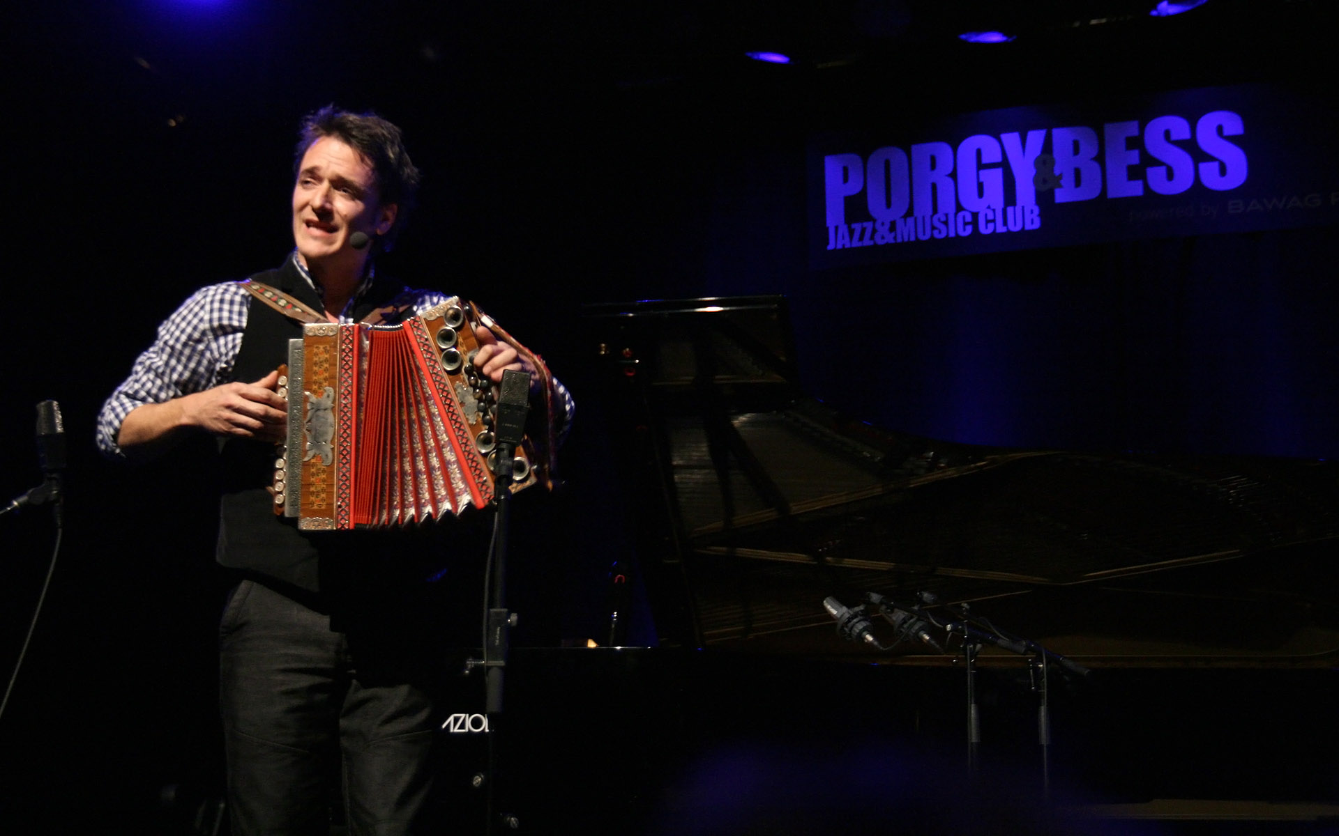 Austrian Cabaret Award (Porgy & Bess, Vienna).